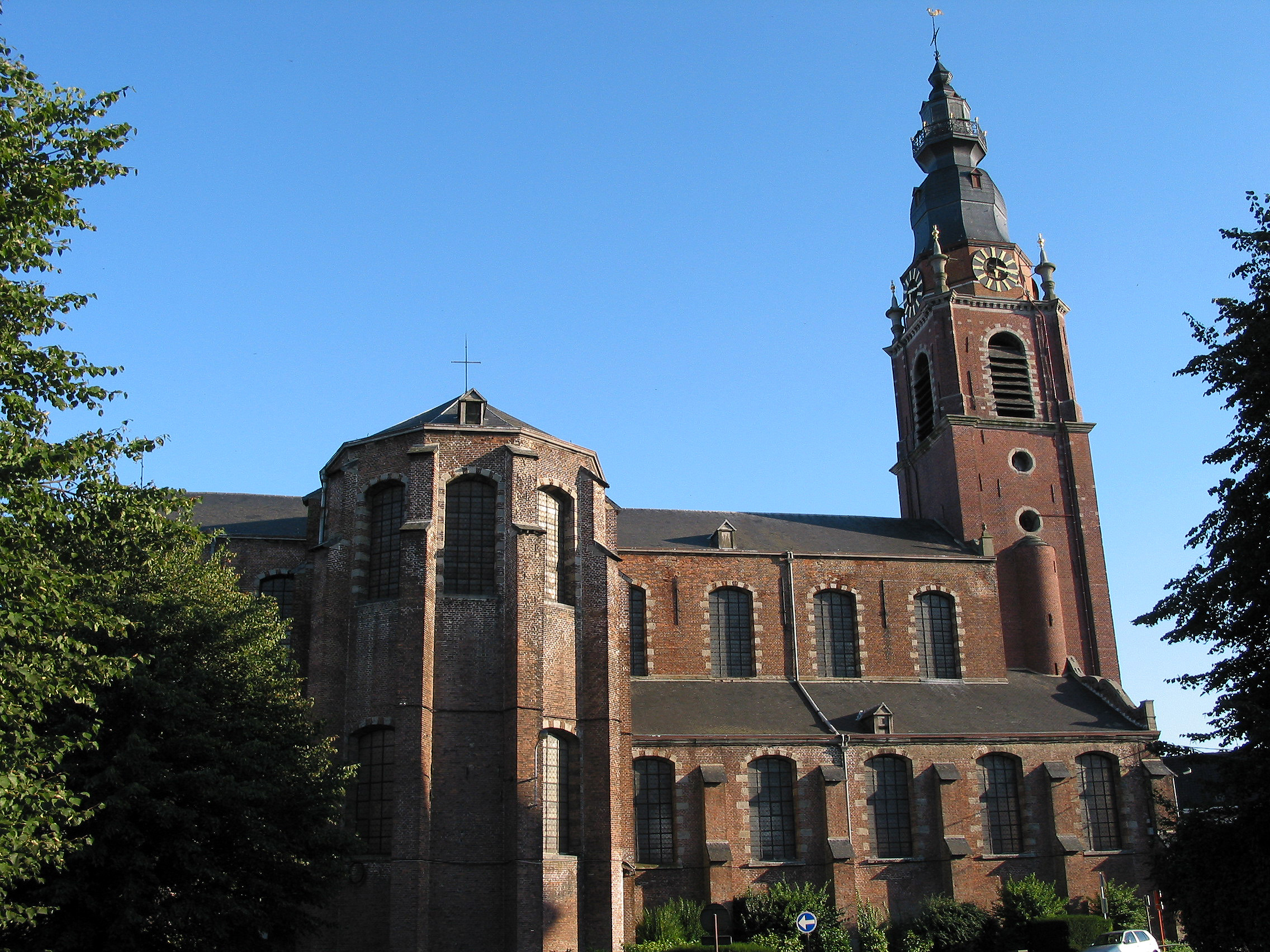 Leuze-en-Hainaut (Belgium), the St. Peter's Collegiate church (1745 - architect: Reverend Father Martin).